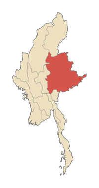 Vectored on Adobe Photoshop CS2.